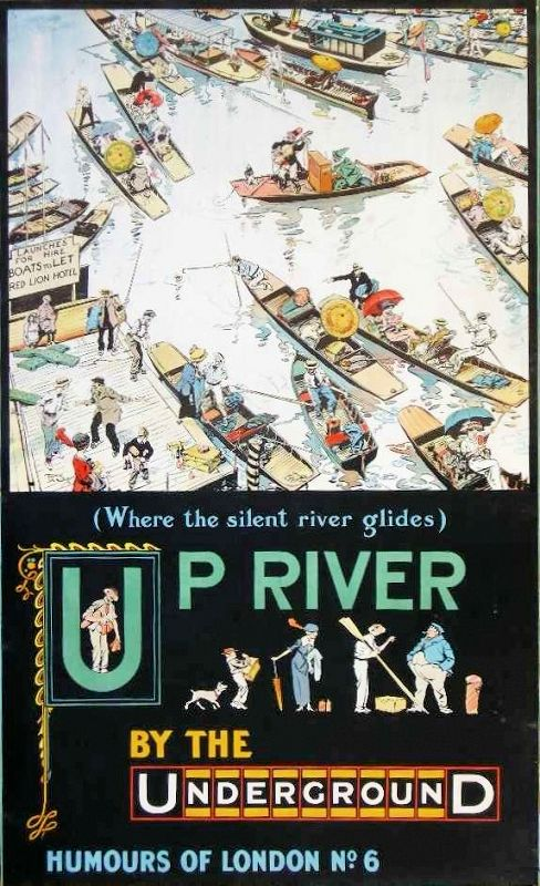 Up river; Humours no. 6, by Tony Sarg